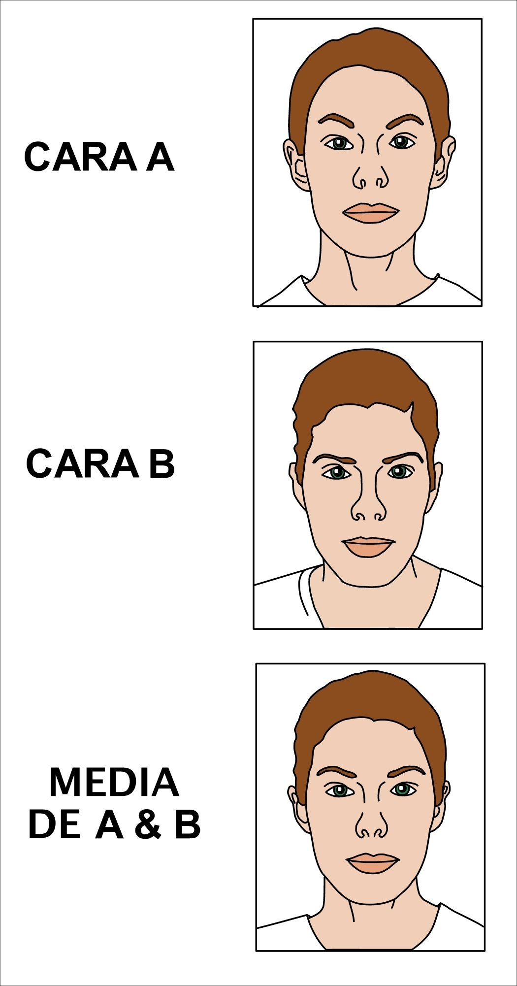 Outline drawings of two young women, and an averaged image of the two.